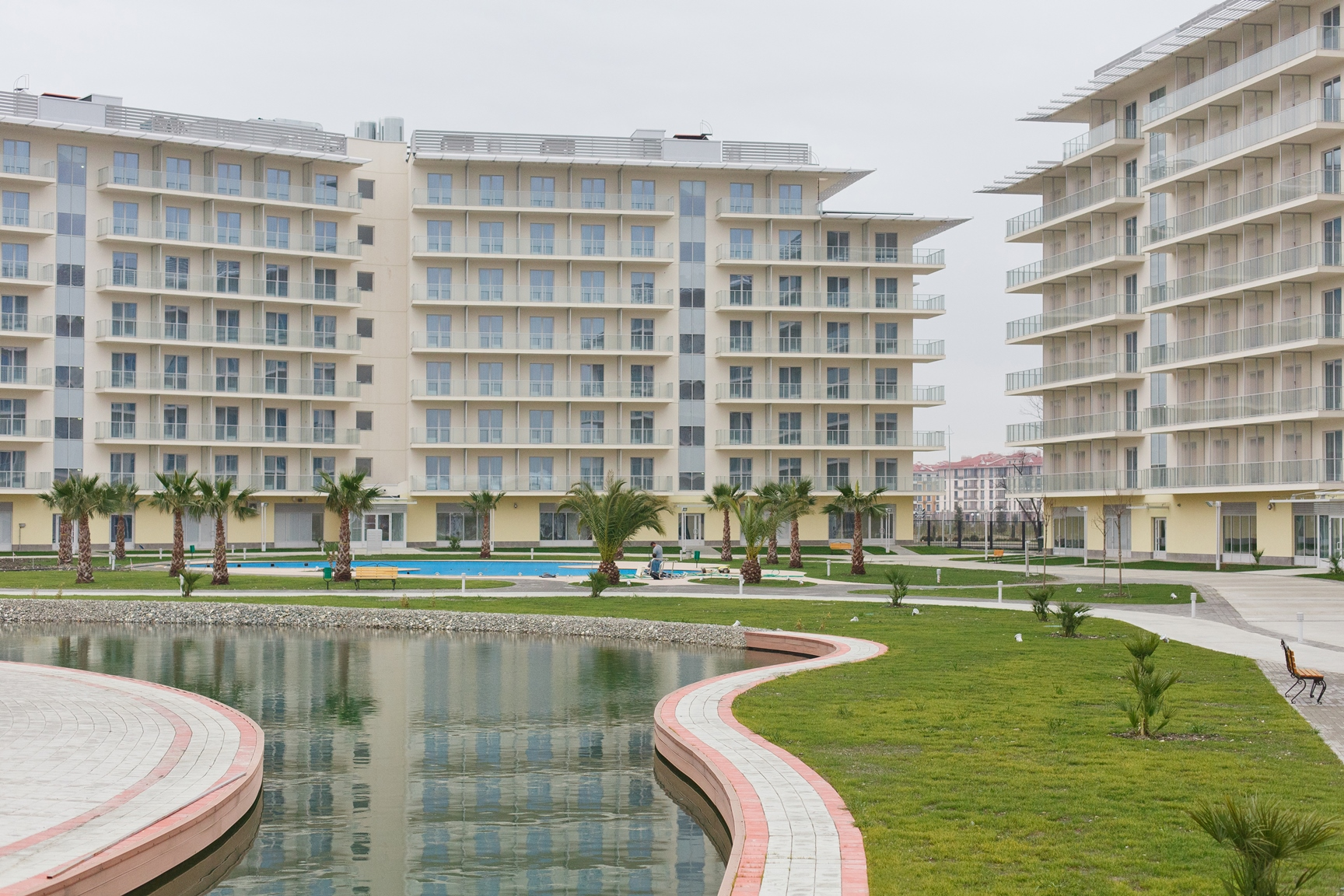 Azimut Hotel Sochi. Azimut Hotels chains